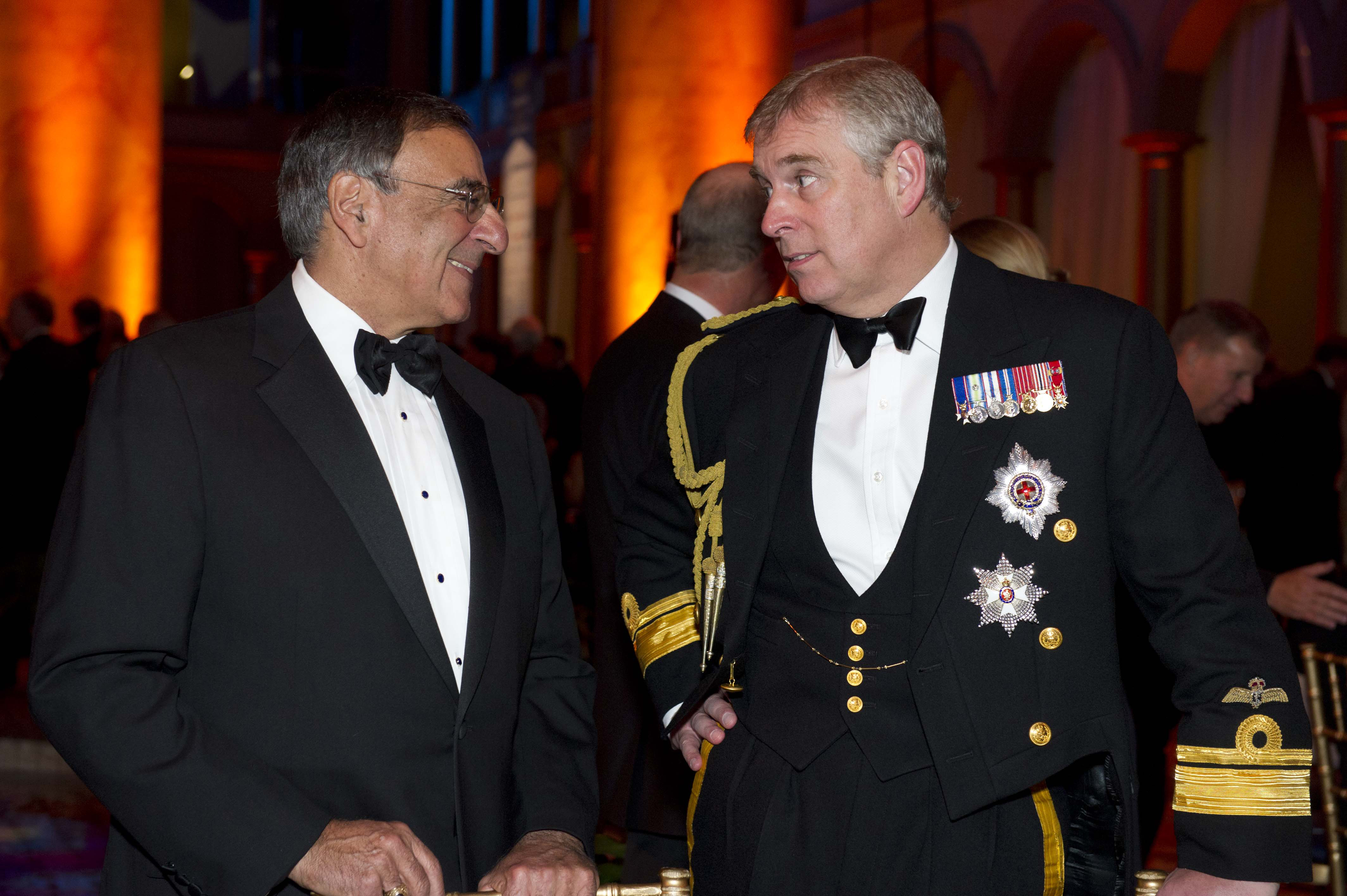 Secretary of Defense Leon E. Panetta speaks with The Duke of York Prince Andrew at the Centennial Commemorative Gala for Naval Aviation at the National Building Museum in Washington D.C., on December 1, 2011. Panetta spoke of the leadership and valor that naval aviators from the Navy, Marine Corps and Coast Guard have shown over the last 100 years.